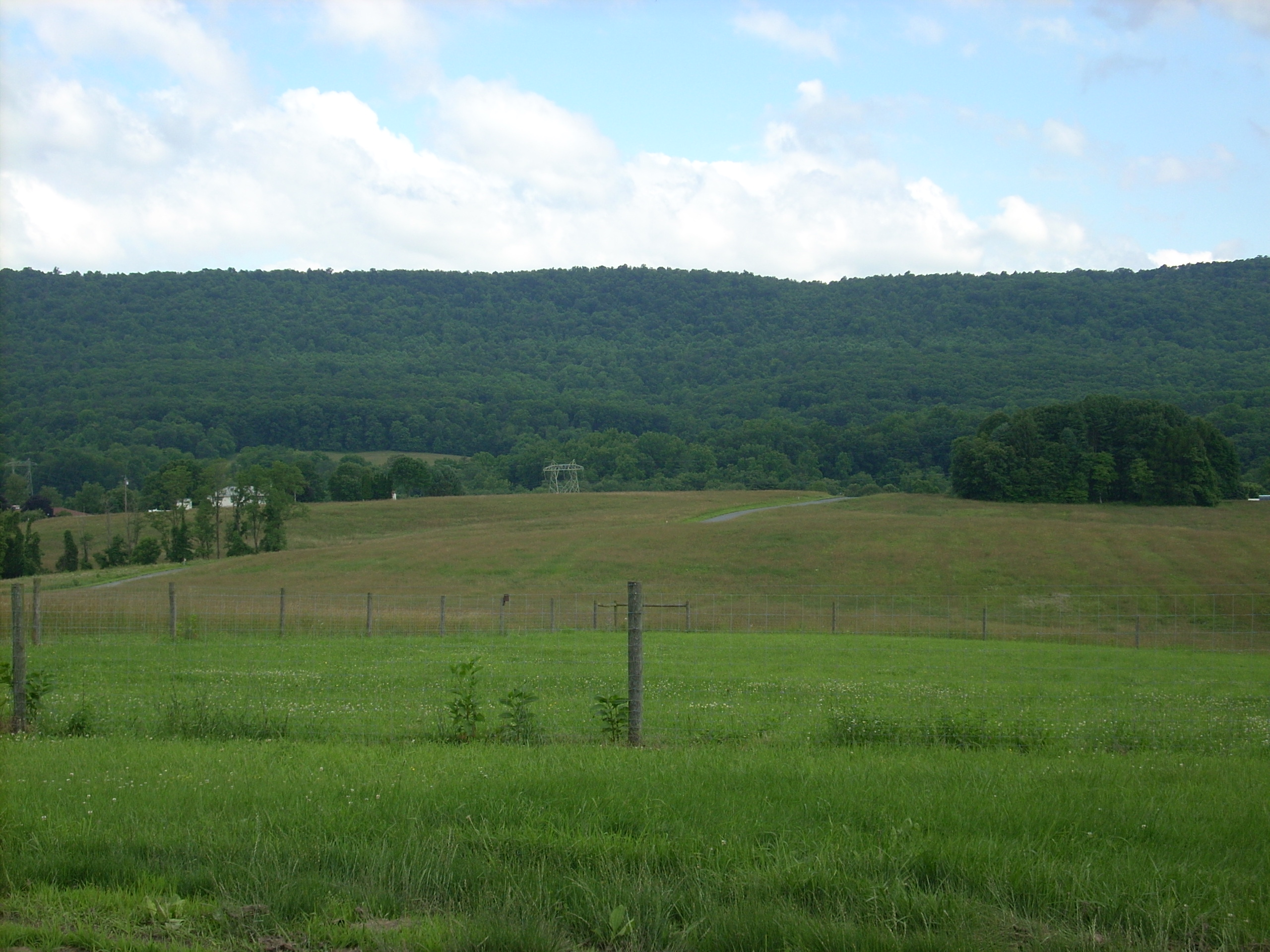 A big meadow at Boyd Big Tree Preserve Conservation Area is a Pennsylvania state park near Harrisburg in Dauphin County, Pennsylvania, USA.